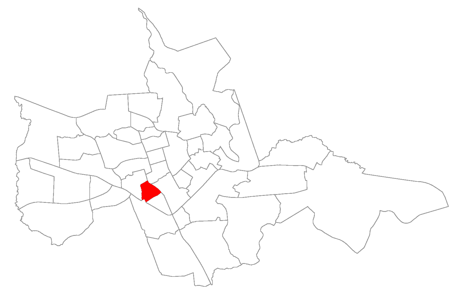 neighborhood/district of Santa Maria, Rio Grande do Sul